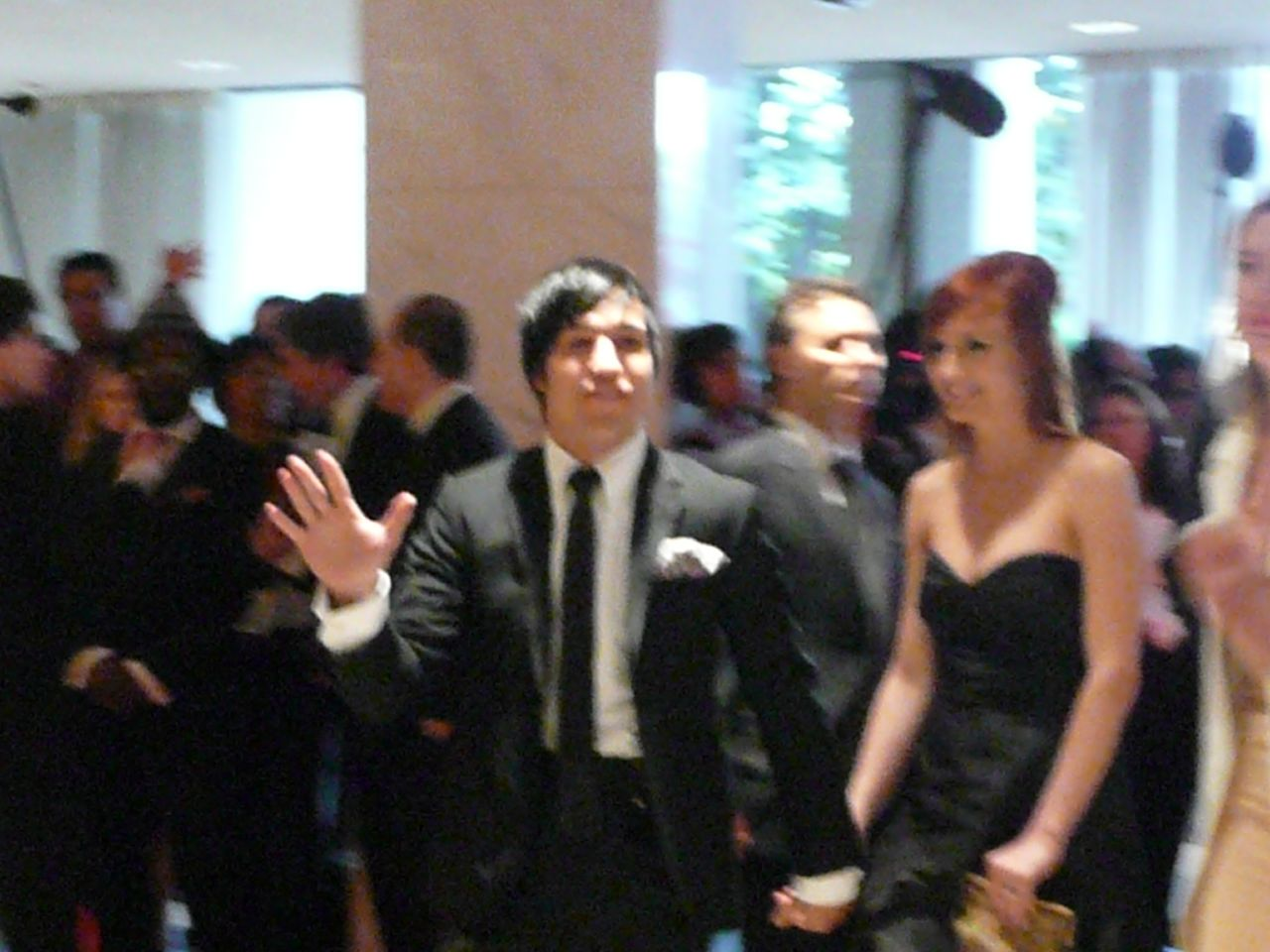 Pete Wentz and Ashlee Simpson